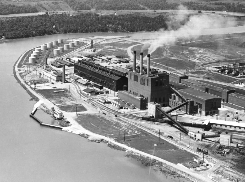 Historical aerial view of the S-50 plant, Oak Ridge, Tennessee, with K-25 powerhouse in foreground. Only the US federal government was authorized to make photographs of these facilities.